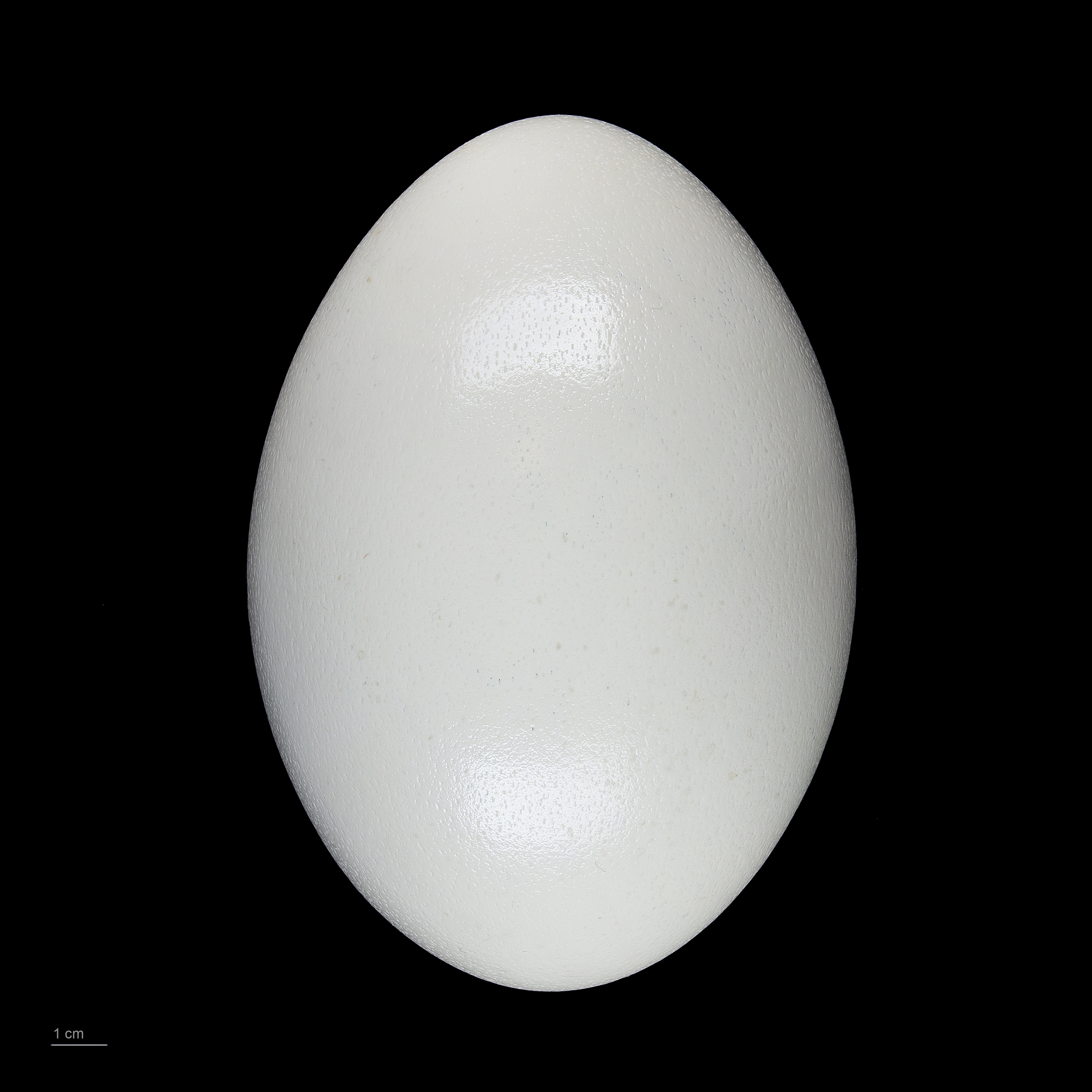 Egg of greater rhea Collection of Jacques Perrin de Brichambaut.